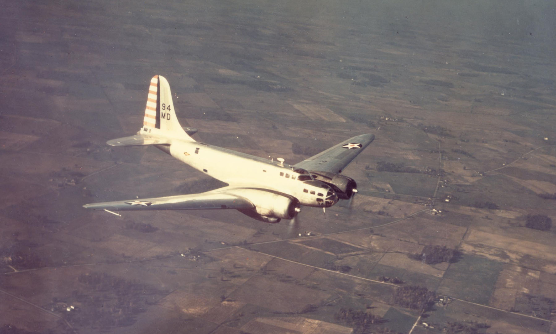 Douglas B-23 Dragon tail code 94 MD in flight. Assigned to the Materiel Division at Wright Field.